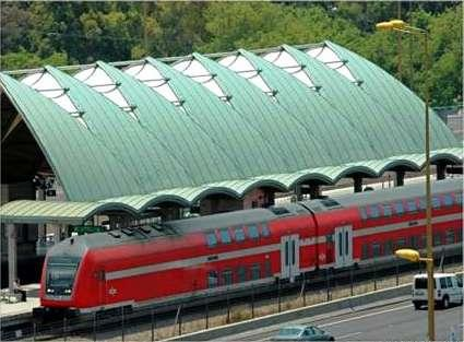 Tel Aviv University Railway Station.